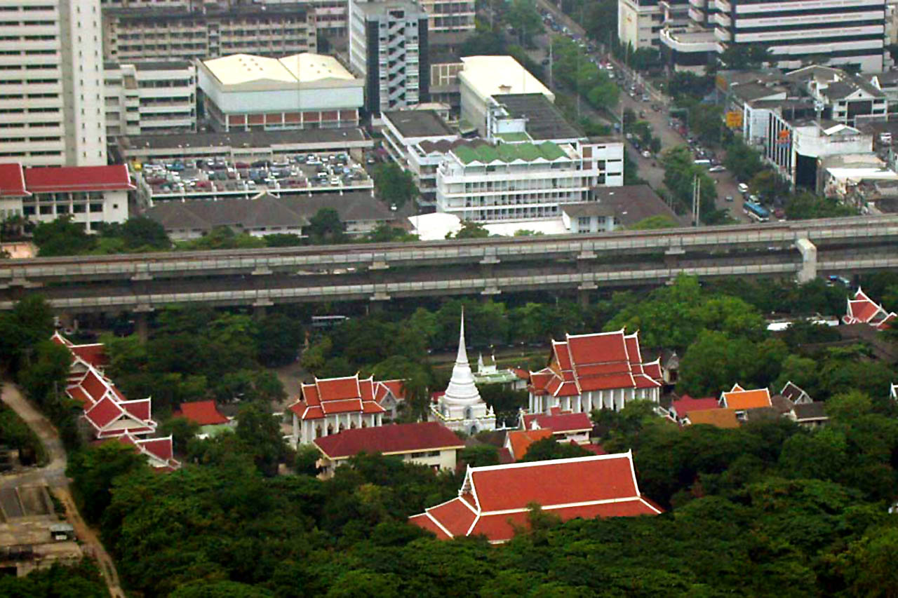 Wat Pathum Wanaram in Bangkok, Thailand. Shot from top of Baiyoke Tower 2.